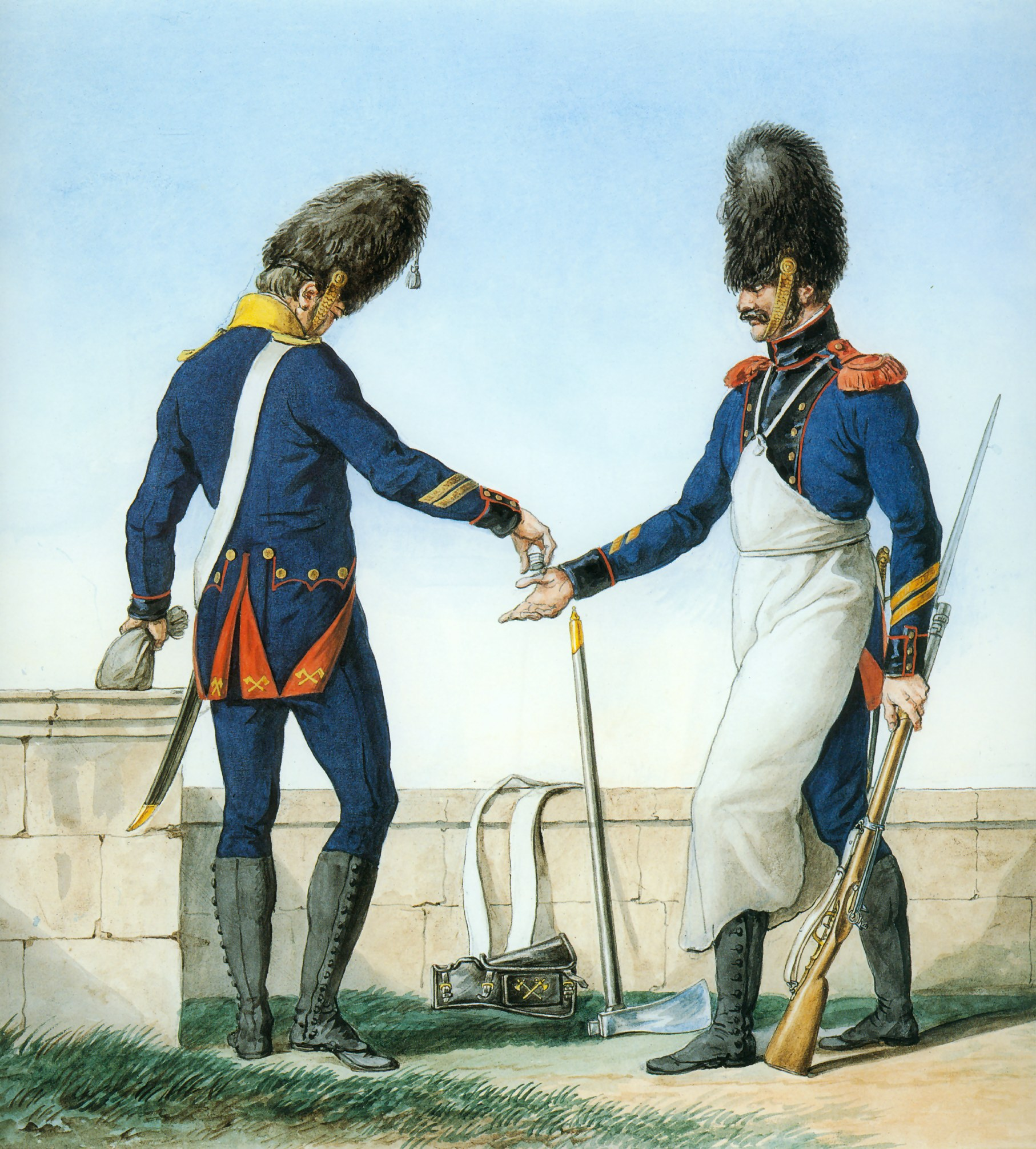 Part of a series chronicling the uniforms of Napoleon's Grande Armée.